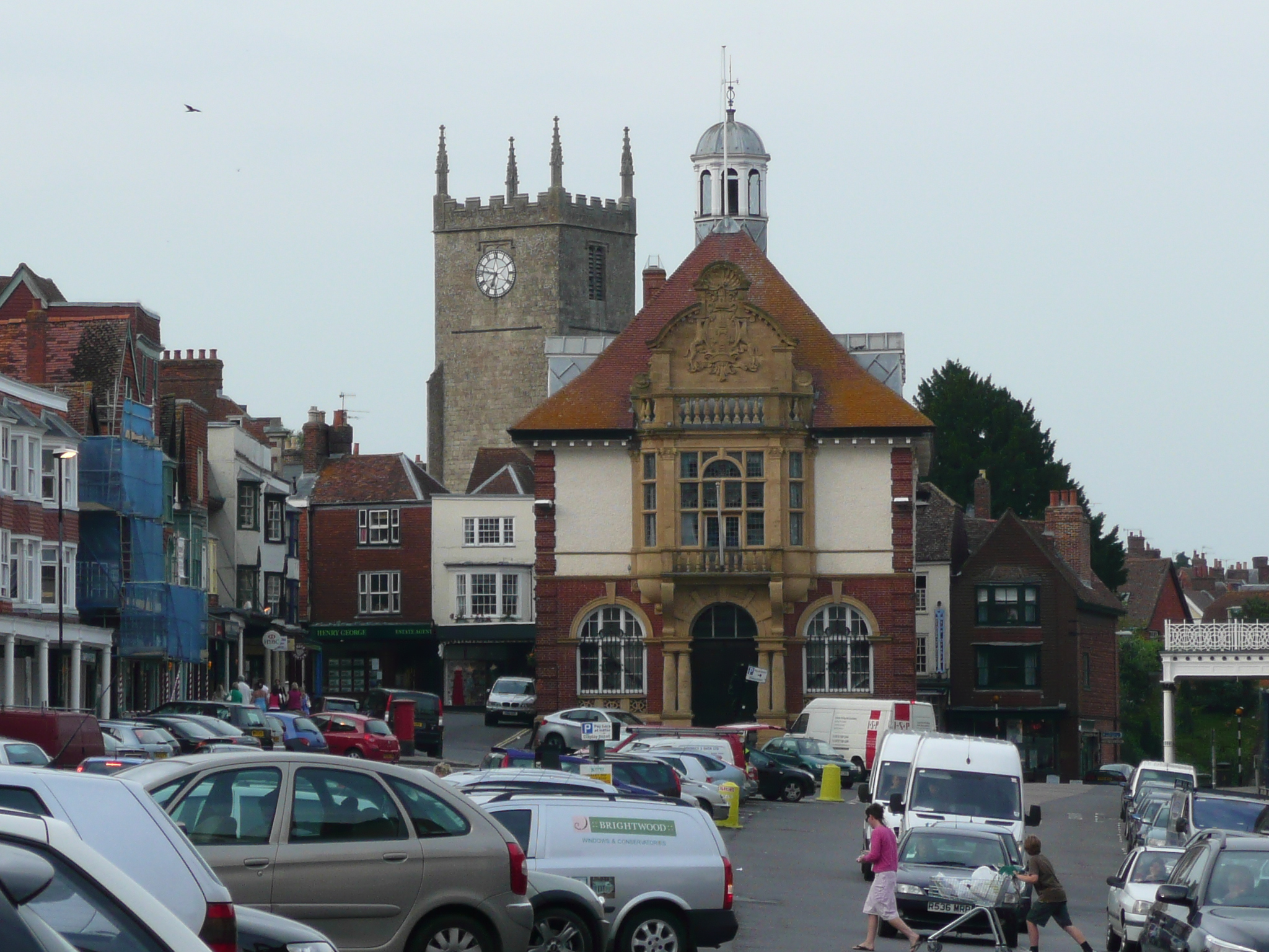 Marlborough, main square.